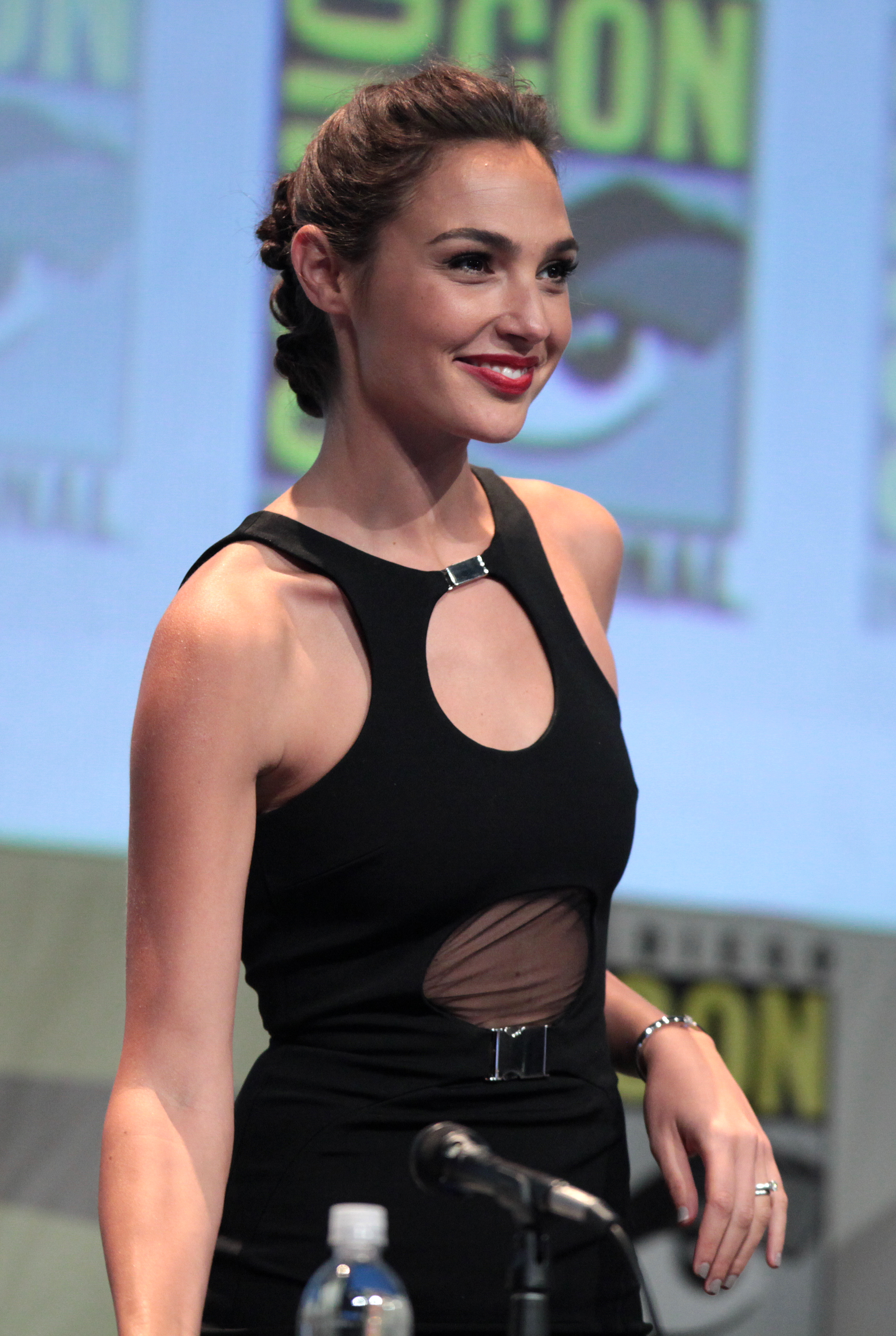 Gal Gadot speaking at the 2015 San Diego Comic Con International, for "Entertainment Weekly: Women Who Kick Ass", at the San Diego Convention Center in San Diego, California.